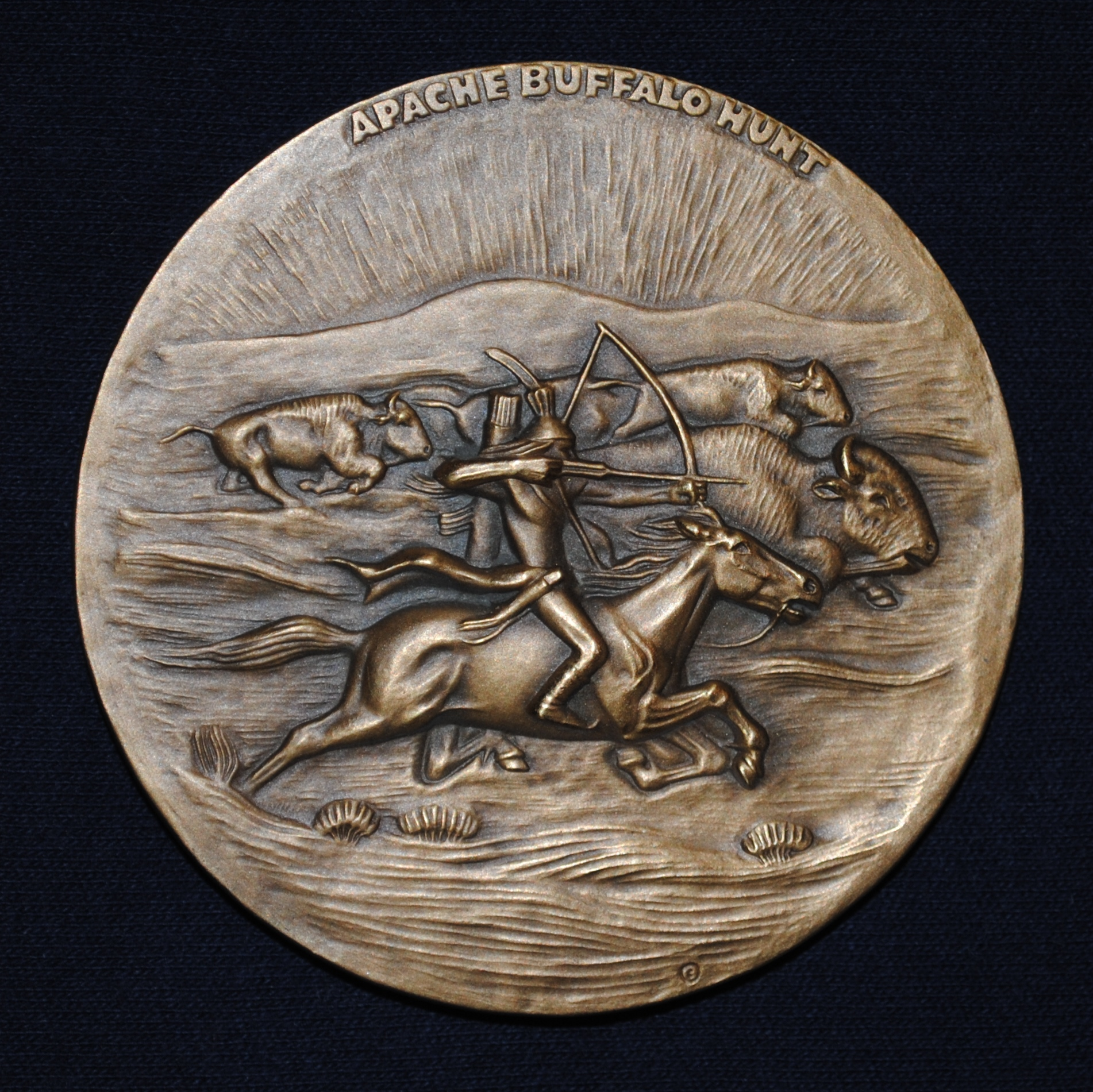 pending